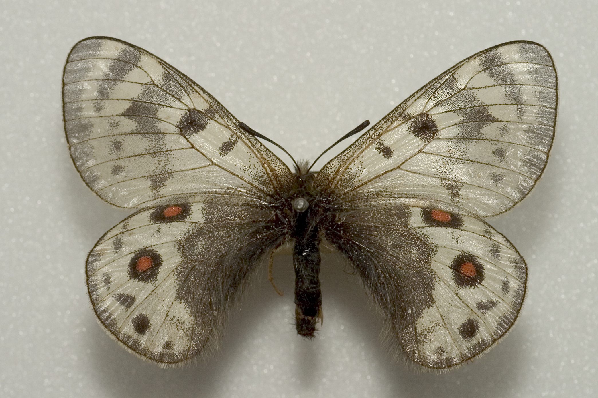 Parnassius acdestis Grumm-Grshimailo, 1891 Female Lob Noor,ex coll.Cristoph Ex Elwes Ex Hill Museum Own photograph. Photography by Brian McKenna Robert Nash